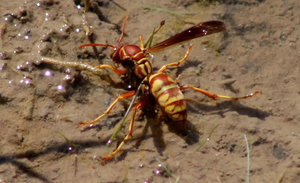 Polistes apachus - drinking from puddle, standing on water using surface tension, in situ in Woodward County, Oklahoma, photo by CalinsDad 25 July 2018. This species is often found drinking in such a fashion. Proliferation of sources of open water due to urbanisation and agriculture has likely been advantageous to this otherwise xeric species. Note this specimen lacks the usual thin two yellow lateral lines on the scutellum.